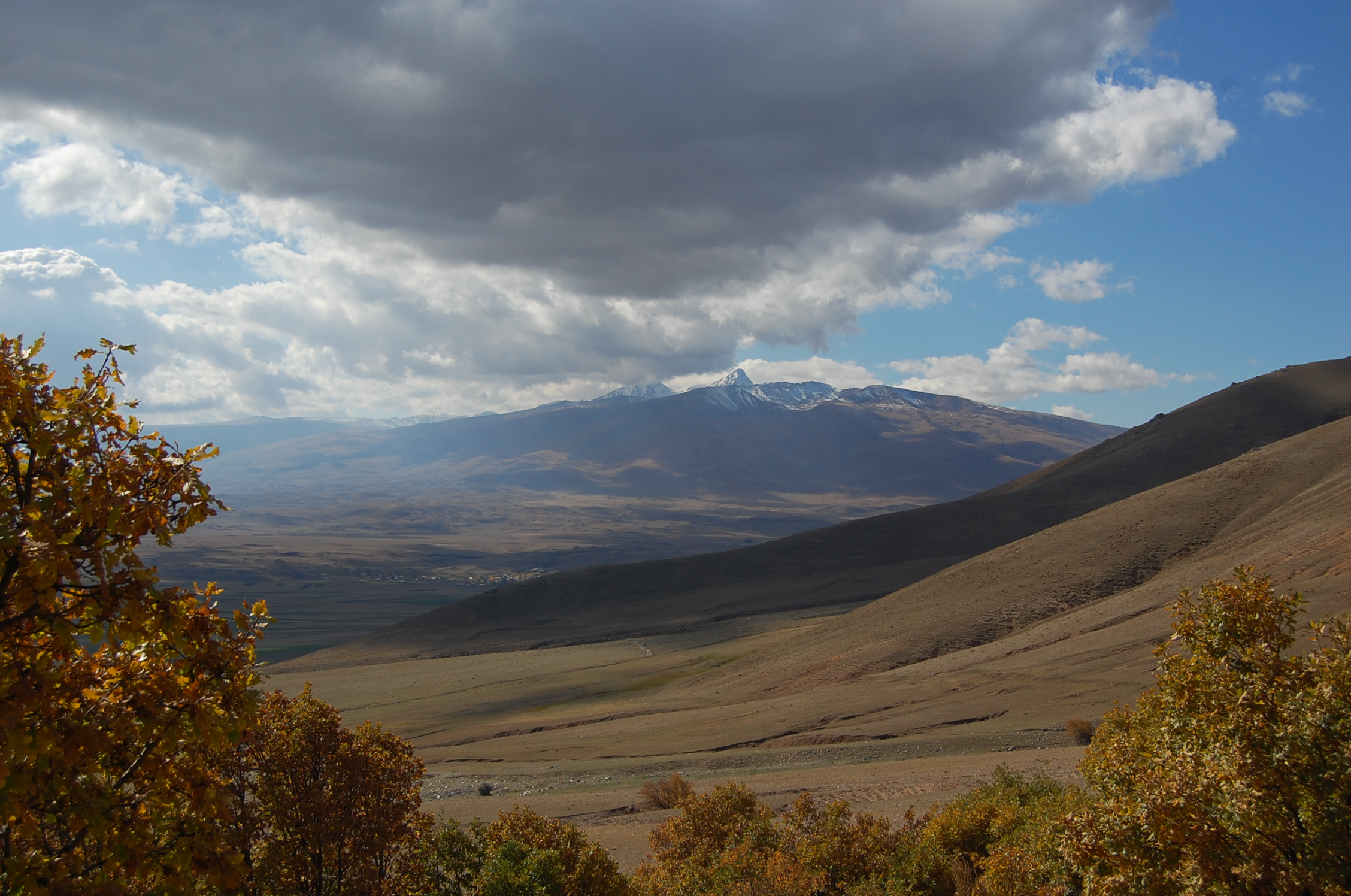 A view of Mount Aragats from a hill near the village of Ttujur (near the town of Aparan).